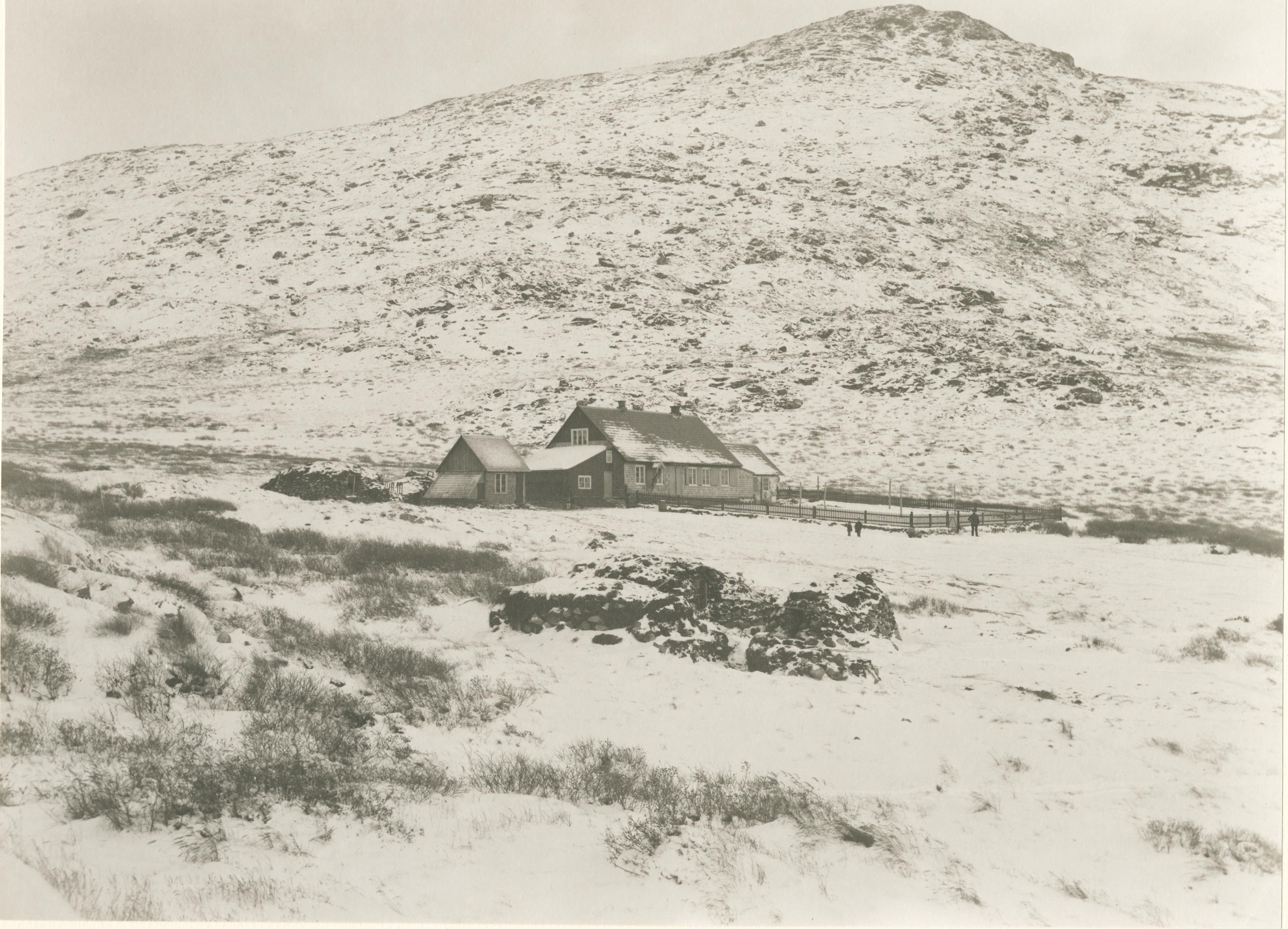 The herrnhut mission station Uummannaq at the bay of Nuuk.